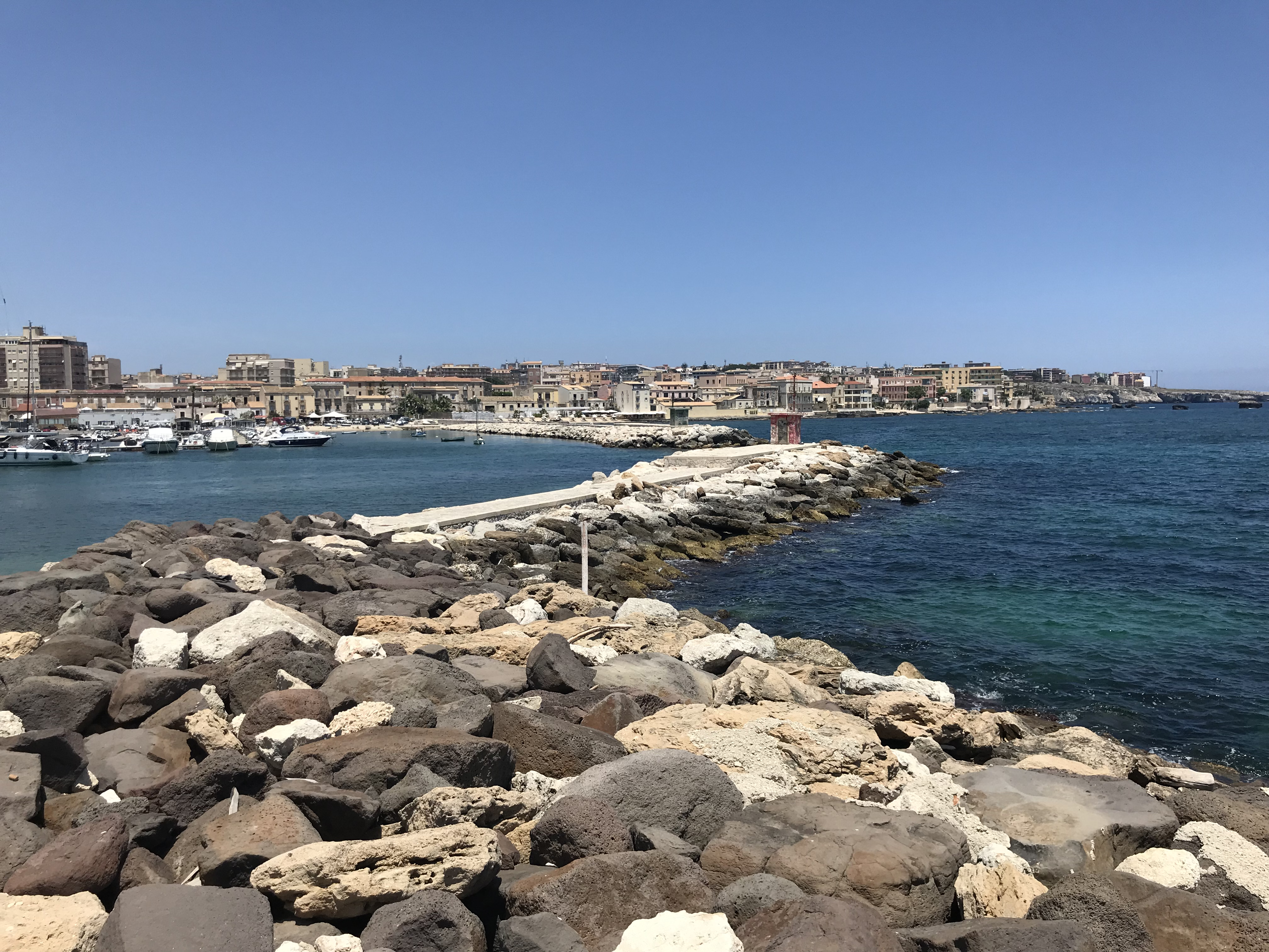 A Harbor at Ortygia where boats can arrive.